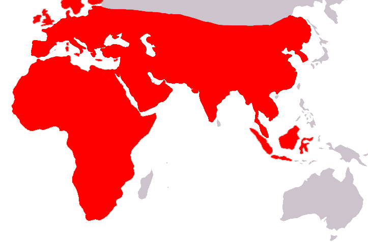 Destribution of Erinaceinae